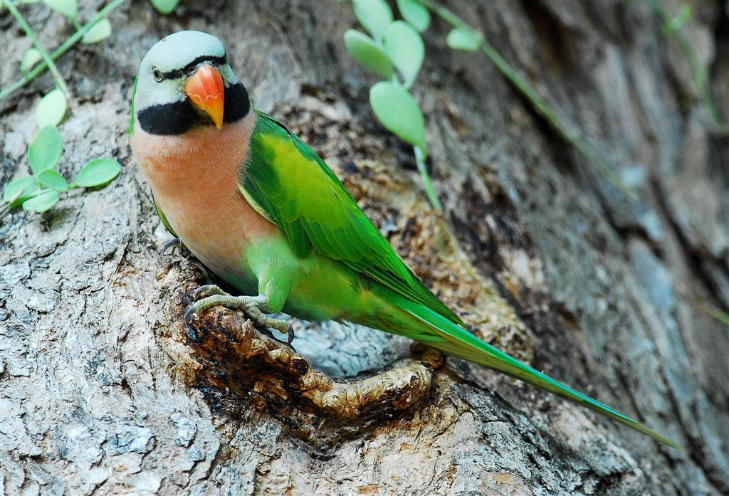 Red-breasted Parakeet (Psittacula alexandri), Changi Point, Singapore